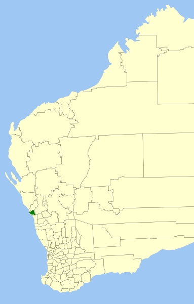 Description=Location of the Local Government Area in Western Australia